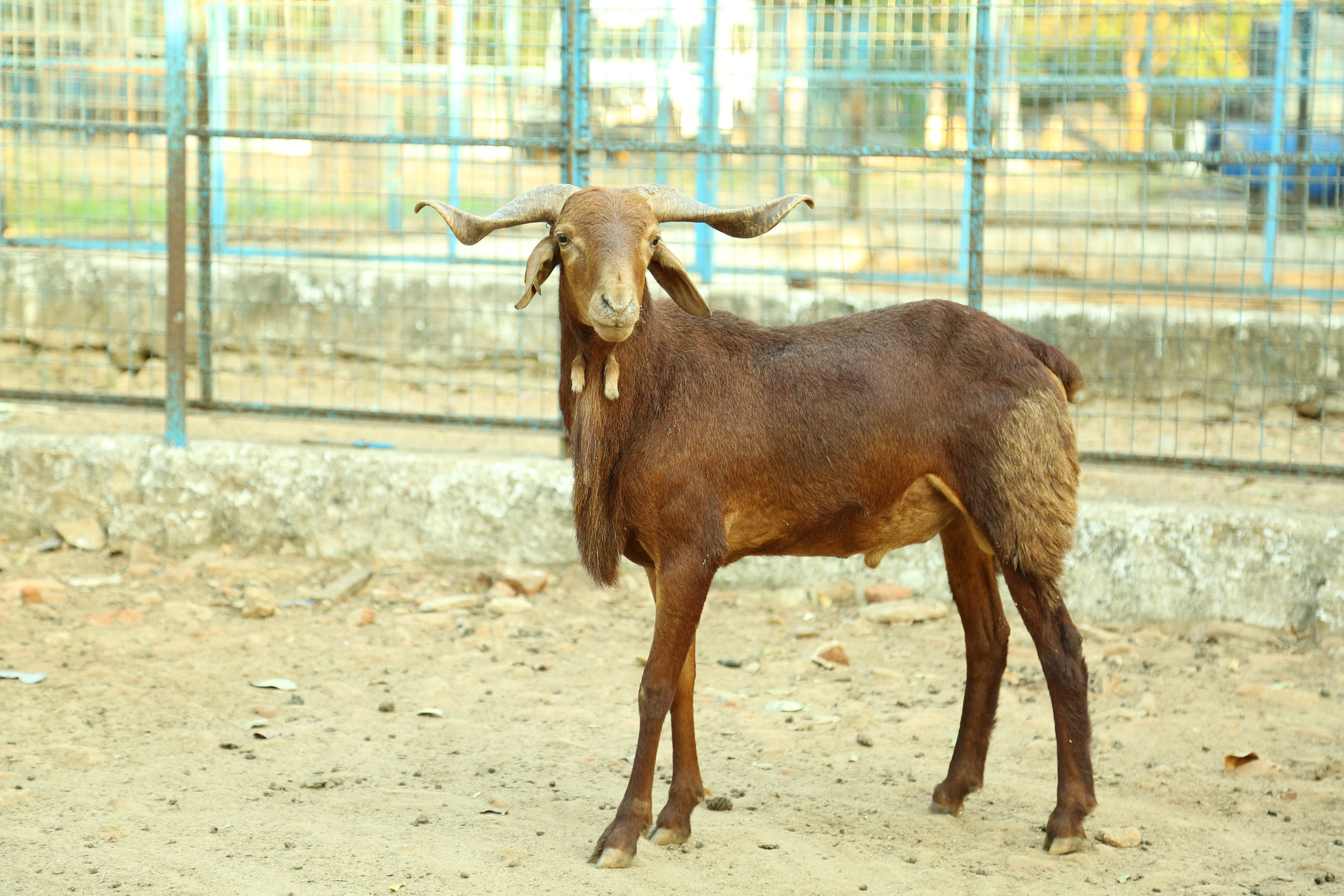 Young ram of Madras Red sheep